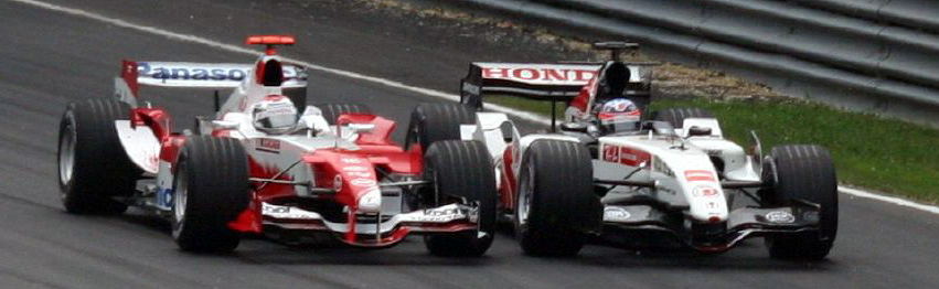 Jarno Trulli (Toyota, left) and Takuma Sato (B.A.R, right)